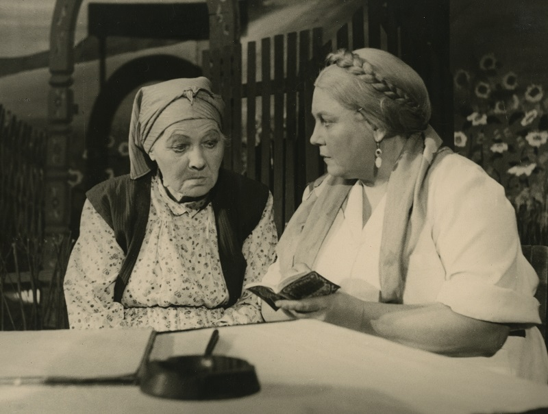 Varvara - Amalie Konsa, Palashka - Alli Tammemets. Cornishchuk "Ukrainian steppes". (Vanemuine, 1948) via Estonian Theater and Music Museum